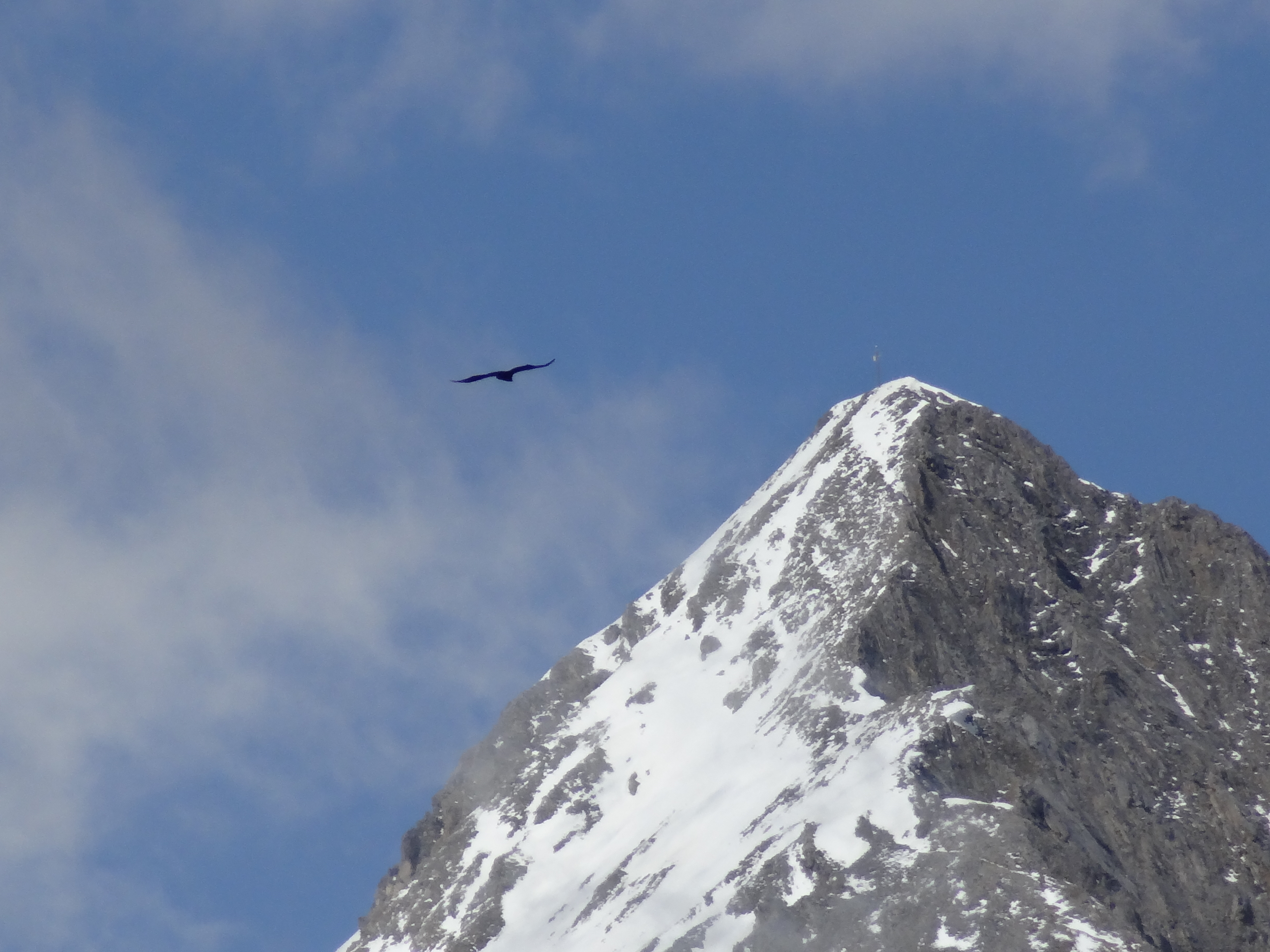 Sex Carro's sight toward "Grand Chavalard" on spring